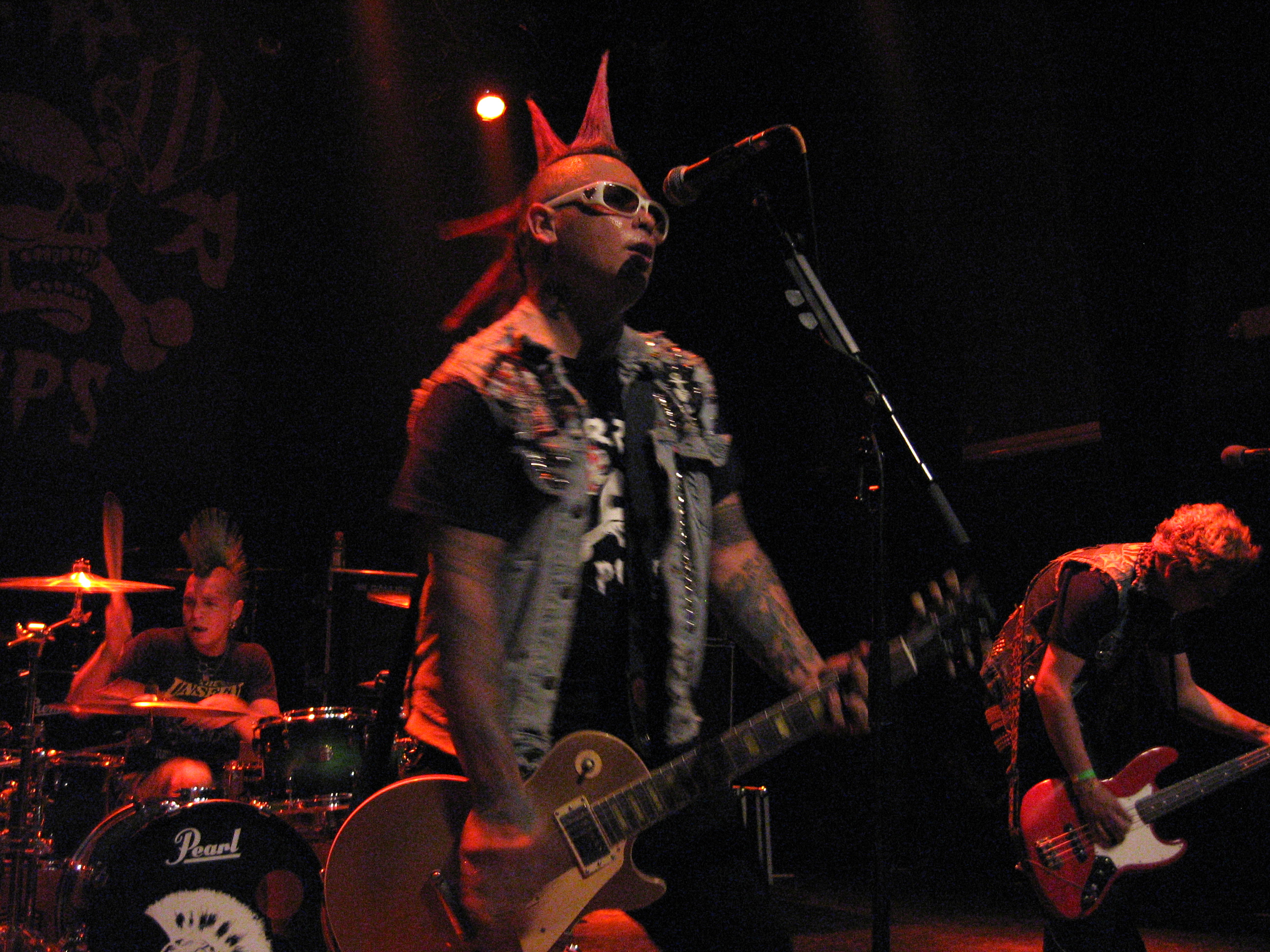 Elvis Cortez from Left Alone